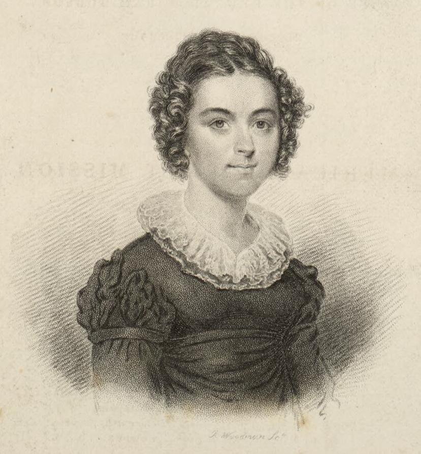 A portrait from the Welsh Portrait Collection at the National Library of Wales. Depicted person: Ann Hasseltine Judson – American missionary